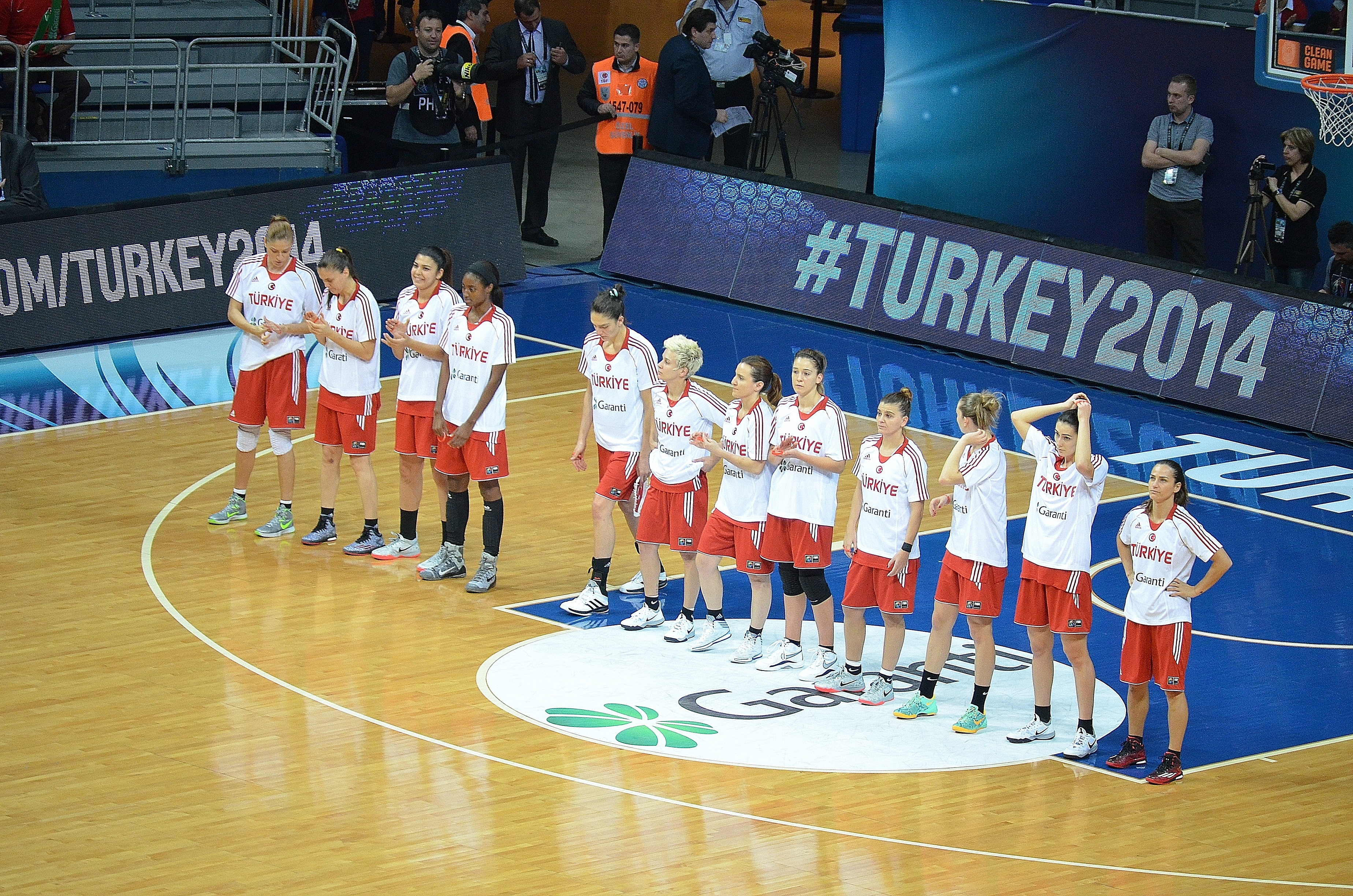 Turkey women's national basketball team at the 2014 FIBA World Championship for Women